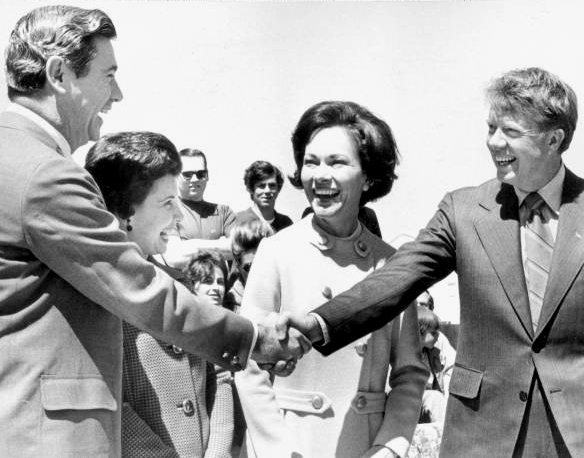 Florida Governor Reubin Askew and his wife (left) welcome Georgia Governor Jimmy Carter and his wife to the reviewing stand to watch the Springtime Tallahassee Parade. Askew and Carter led the parade in the first two cars.